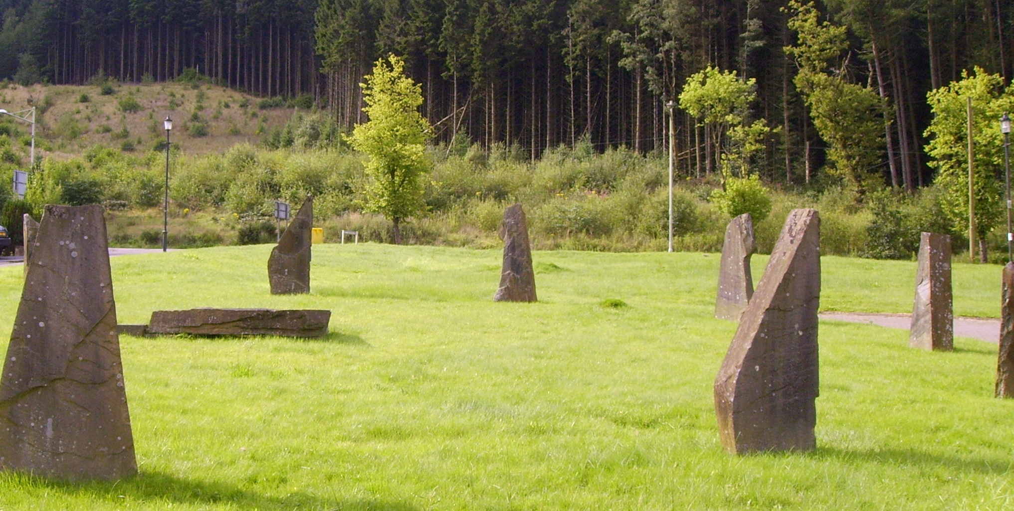 Gorsedd Stones, Treorchy Eisteddfod, Rhondda, Wales